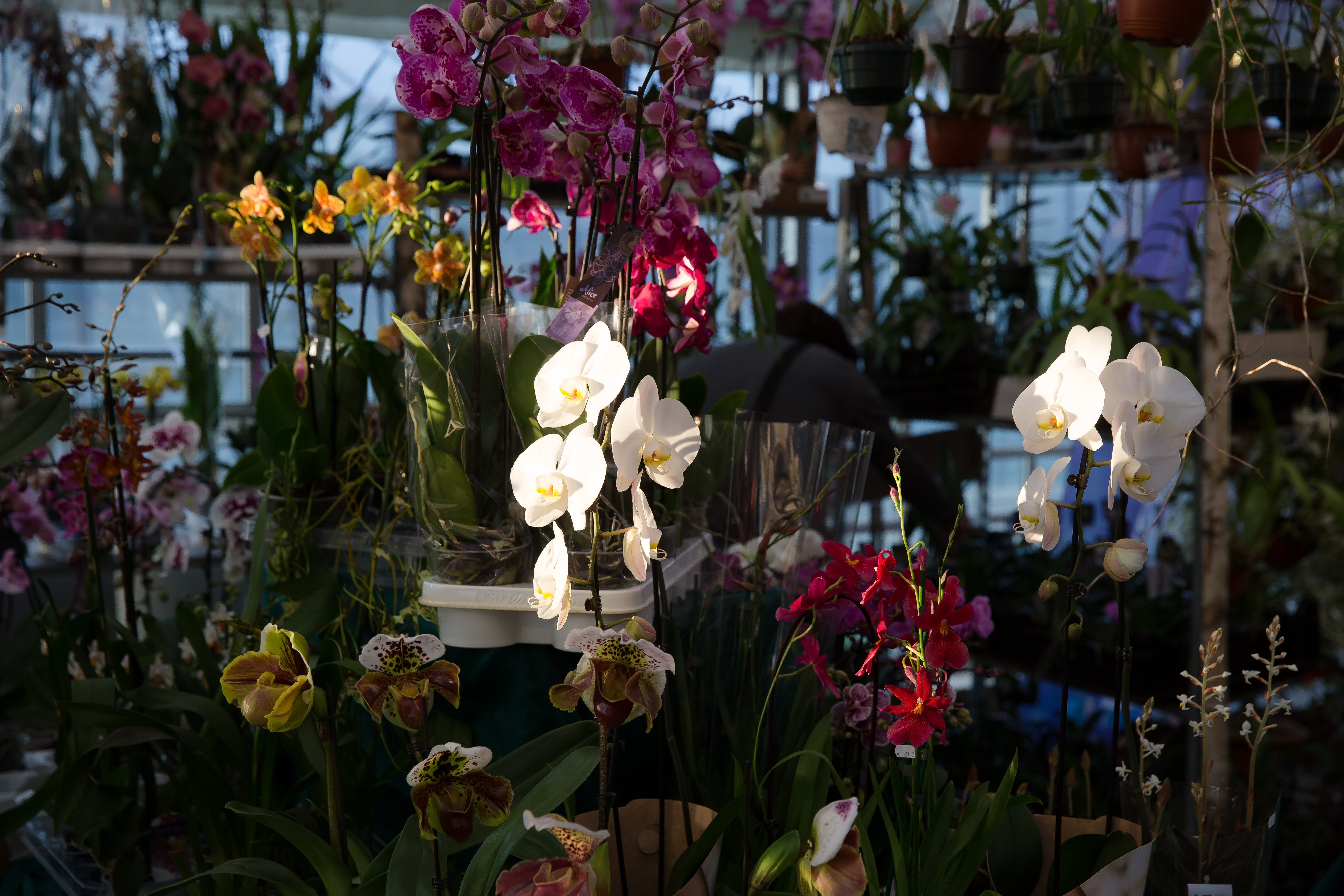 International Exhibition of Orchids and Tillandsia at Blumengärten Hirschstetten in Vienna, Austria.